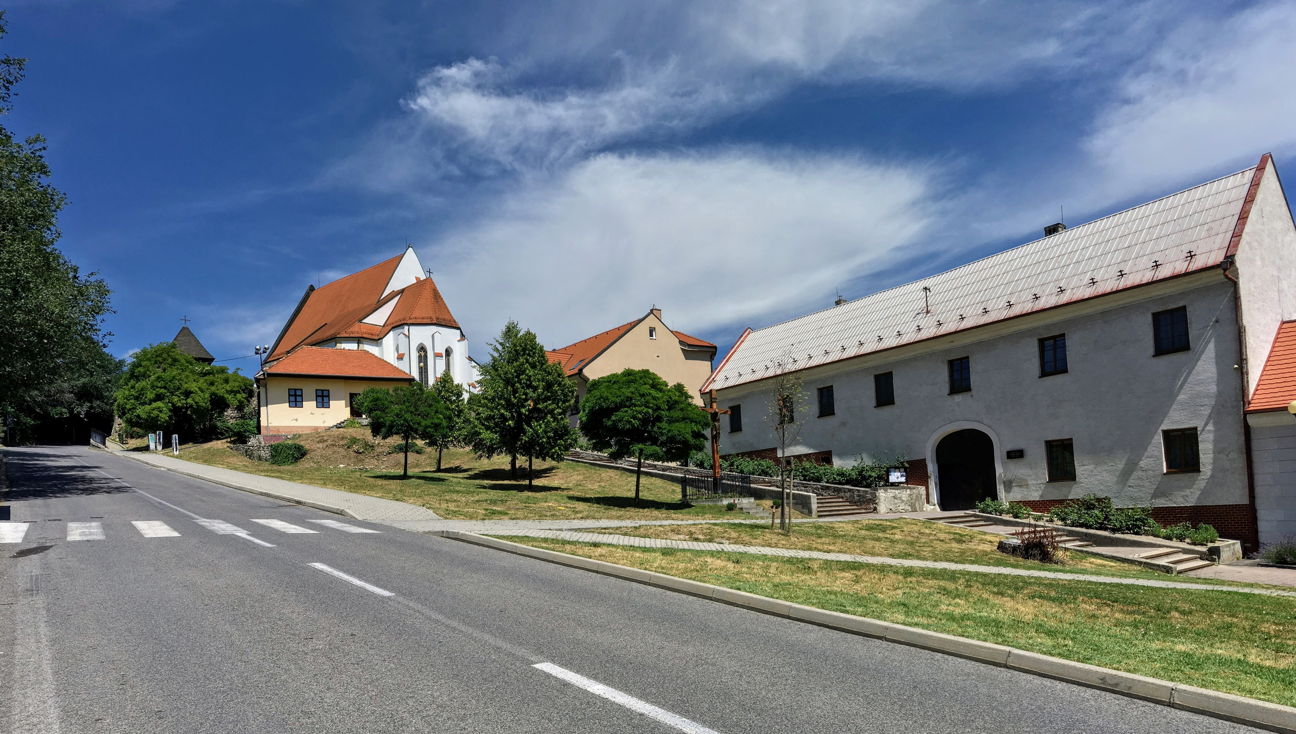 Parish church of Saint George in Svätý Jur